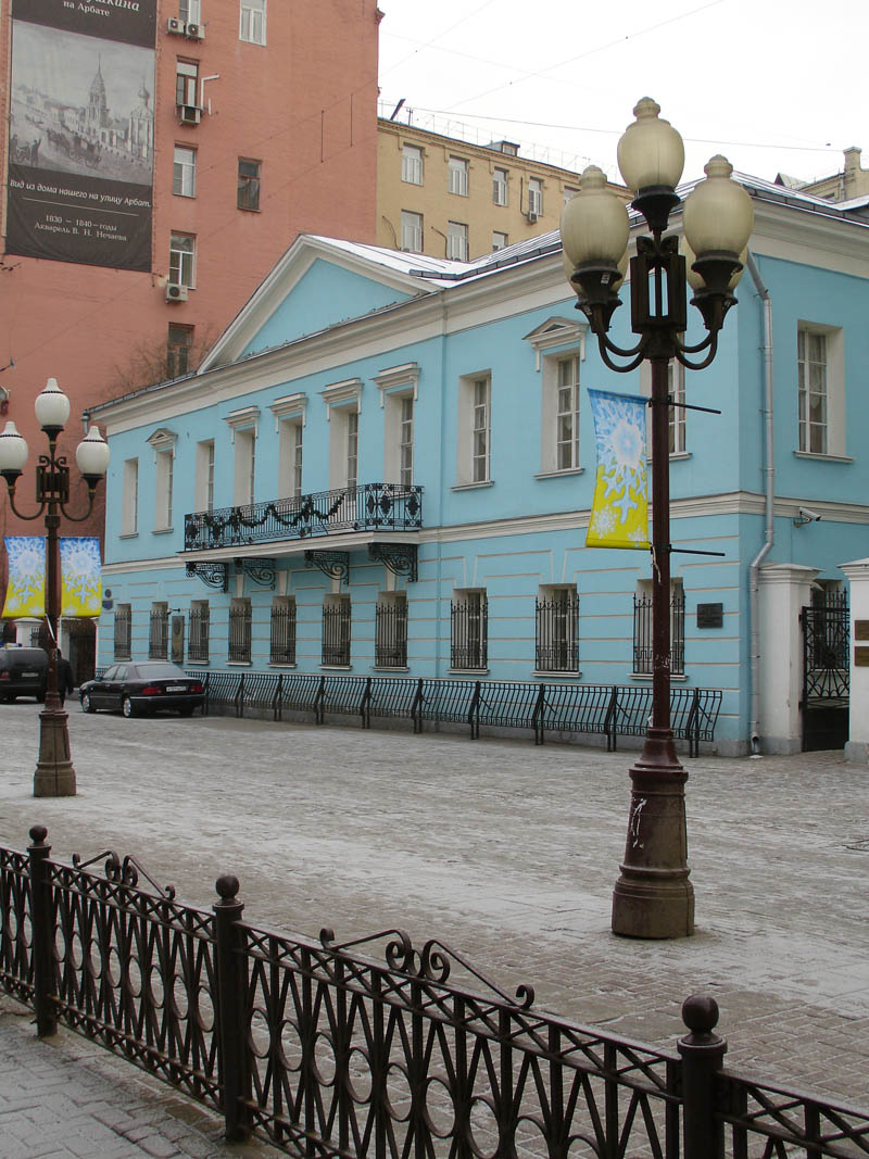 Arbat Street, Moscow. Alexander Pushkin museum (his Arbat apartment)